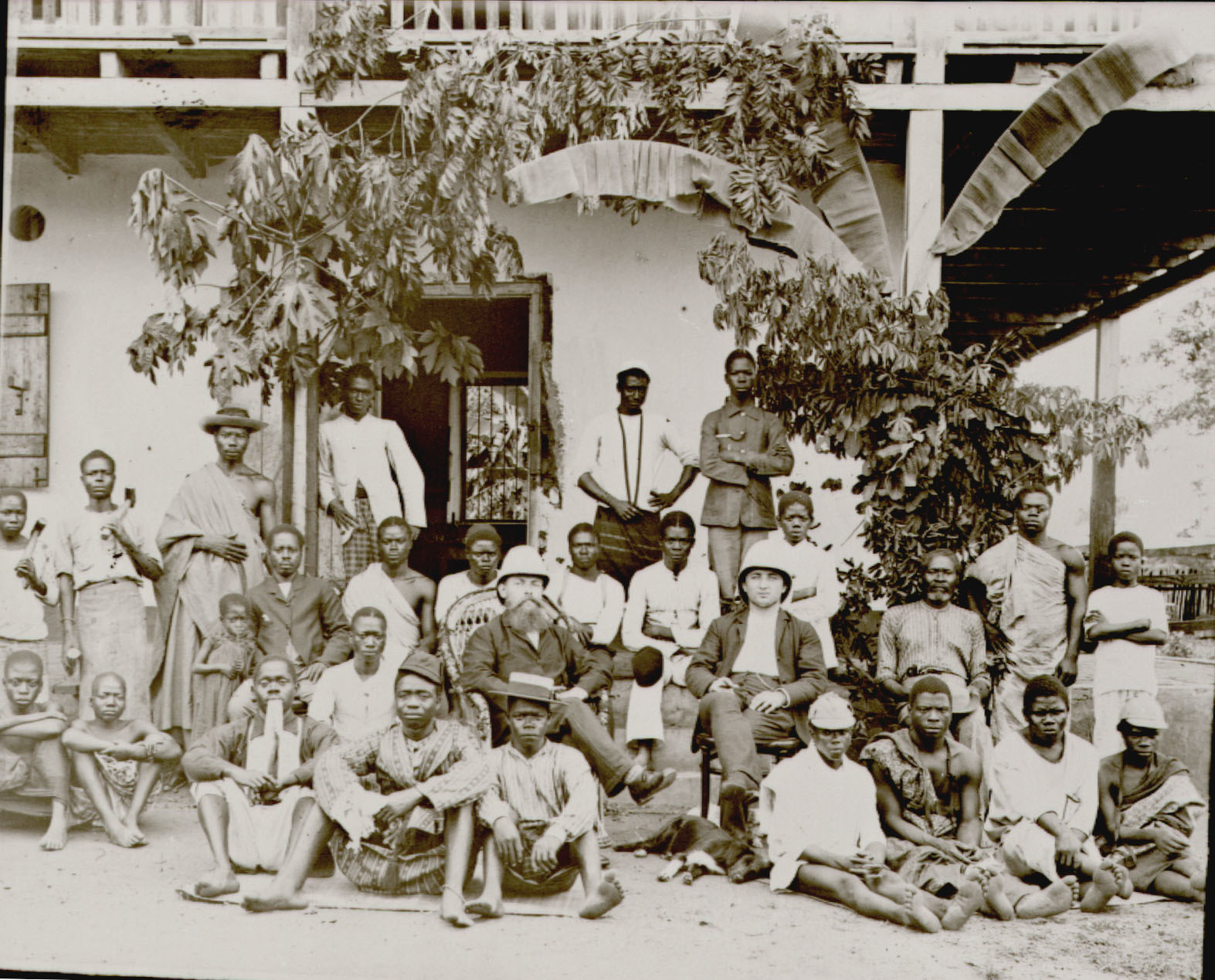 The School of Basel Mission in Gold Coast (Ghana), 1880s